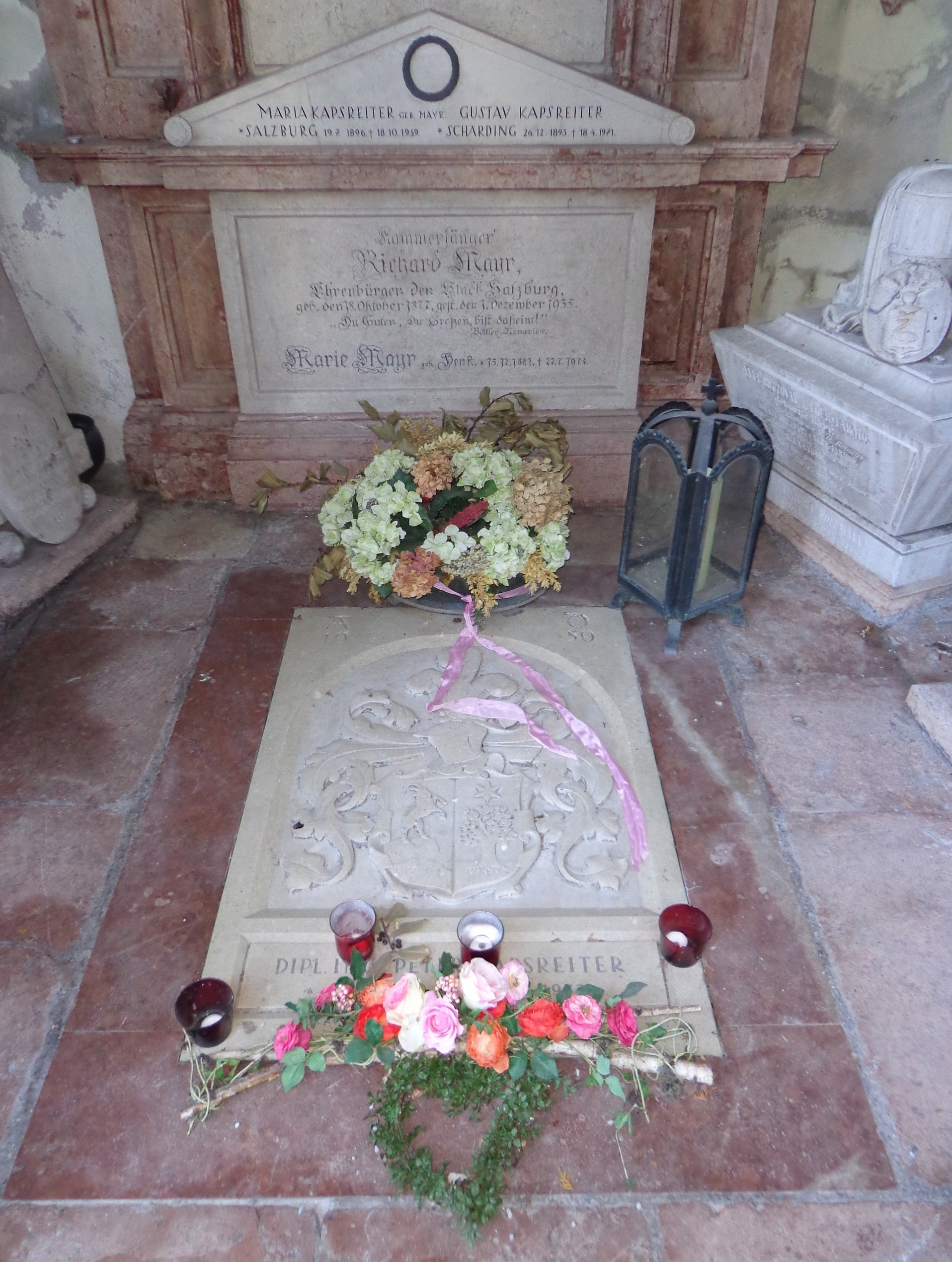 Crypt 33 (Petersfriedhof Salzburg): Mayr and Kapsreiter families